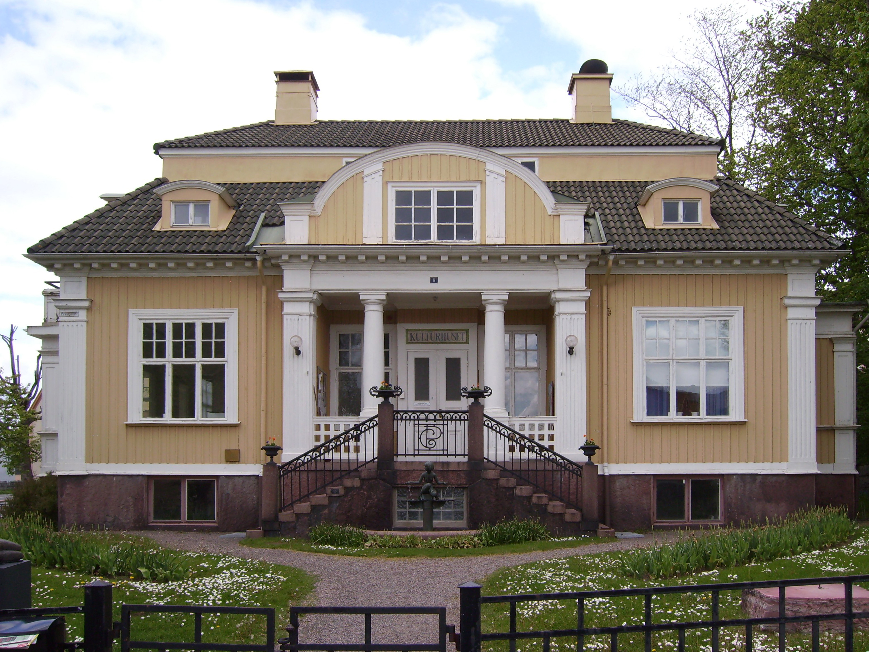 The culture house in the town Nässjö in Sweden.